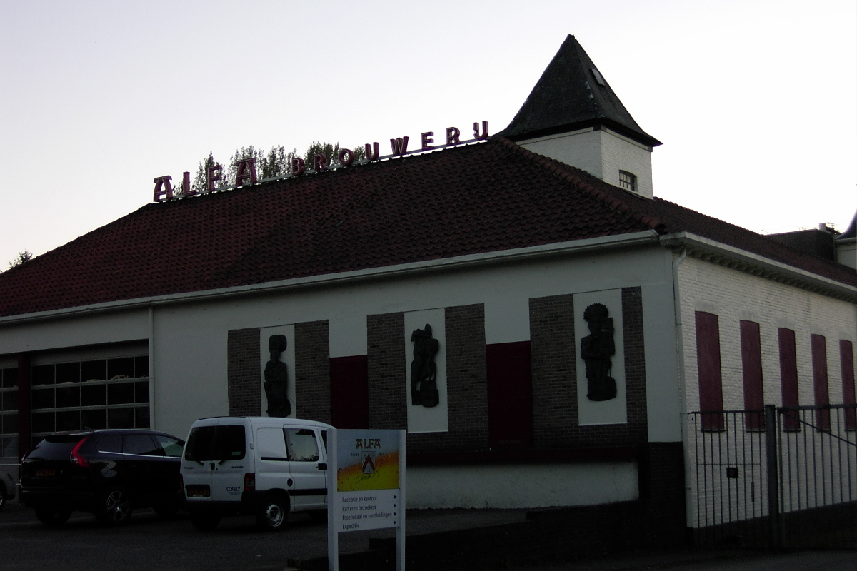 Alfa Beer in Thull Schinnen Netherlands